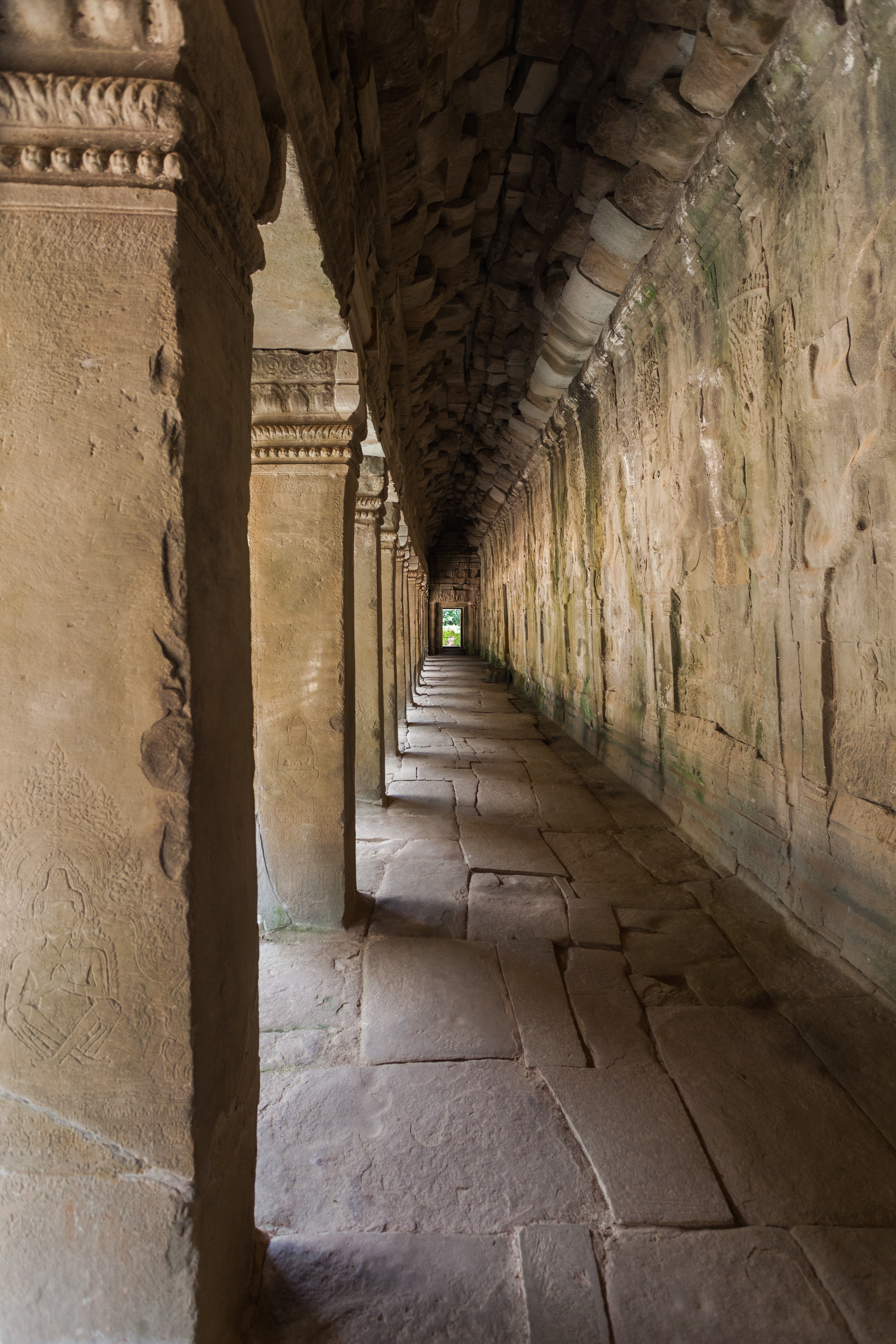 Ta Phrom, Angkor, Cambodia